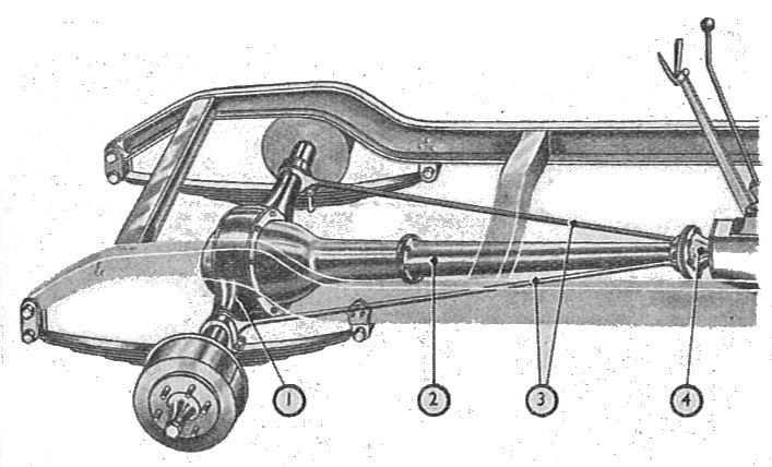 Rear axle with torque tube (Manual of Driving and Maintenance).jpg